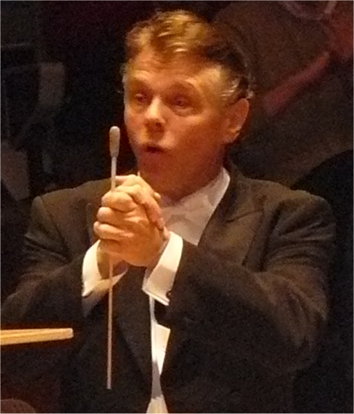 Mariss Jansons receives applause after a performance of a programme of Wagner, Bavarian Radio Symphony Orchestra, Royal Festival Hall, 8 March 2008